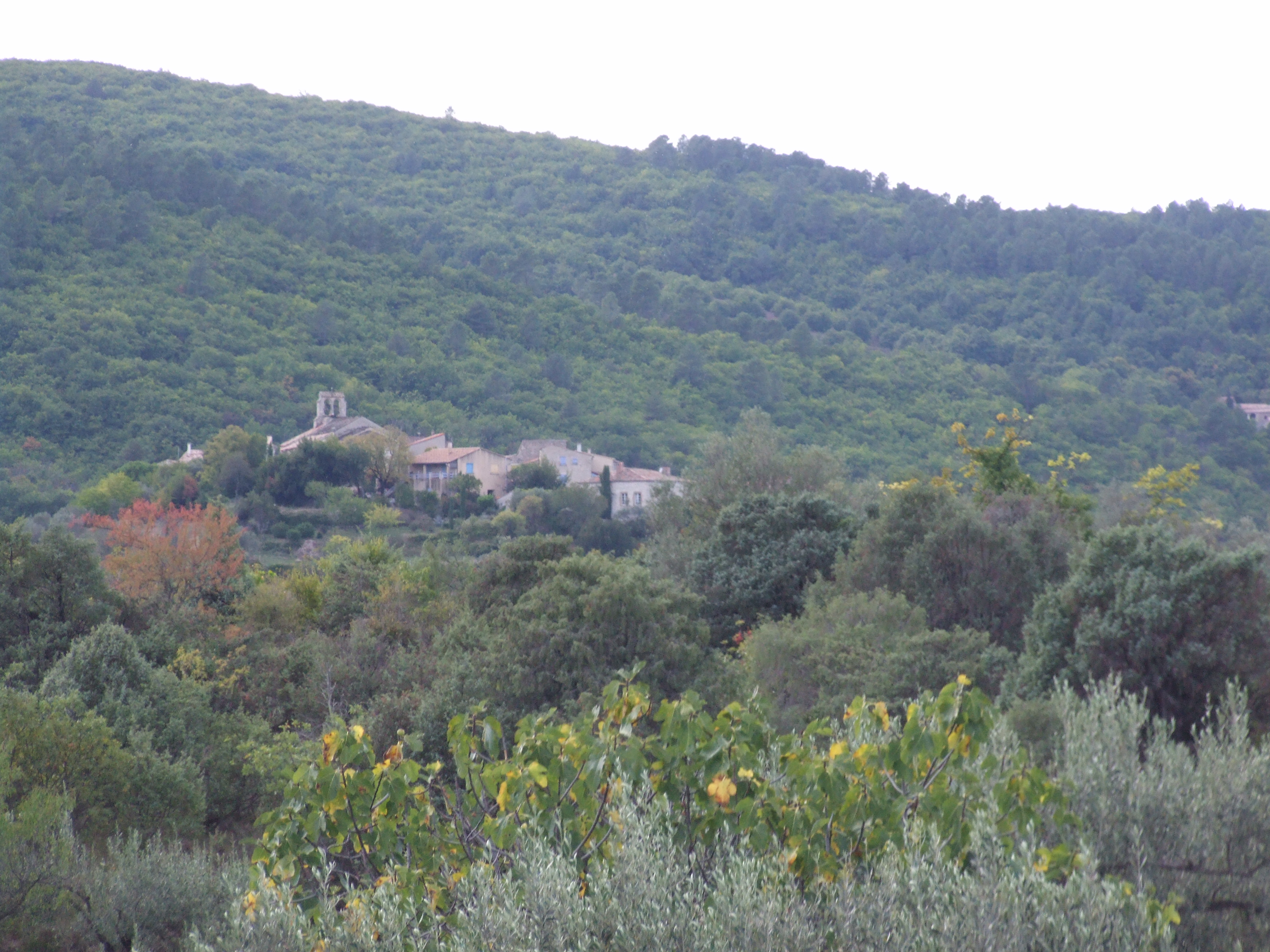 Courry is a commune, situated on the D559 in the Canton of St Ambroix, in the departement of Gard in the region Languedoc-Roussillon in southern France. Its post code is F30500 and INSEE 30097. Village centre from the D904 Aubenas road.